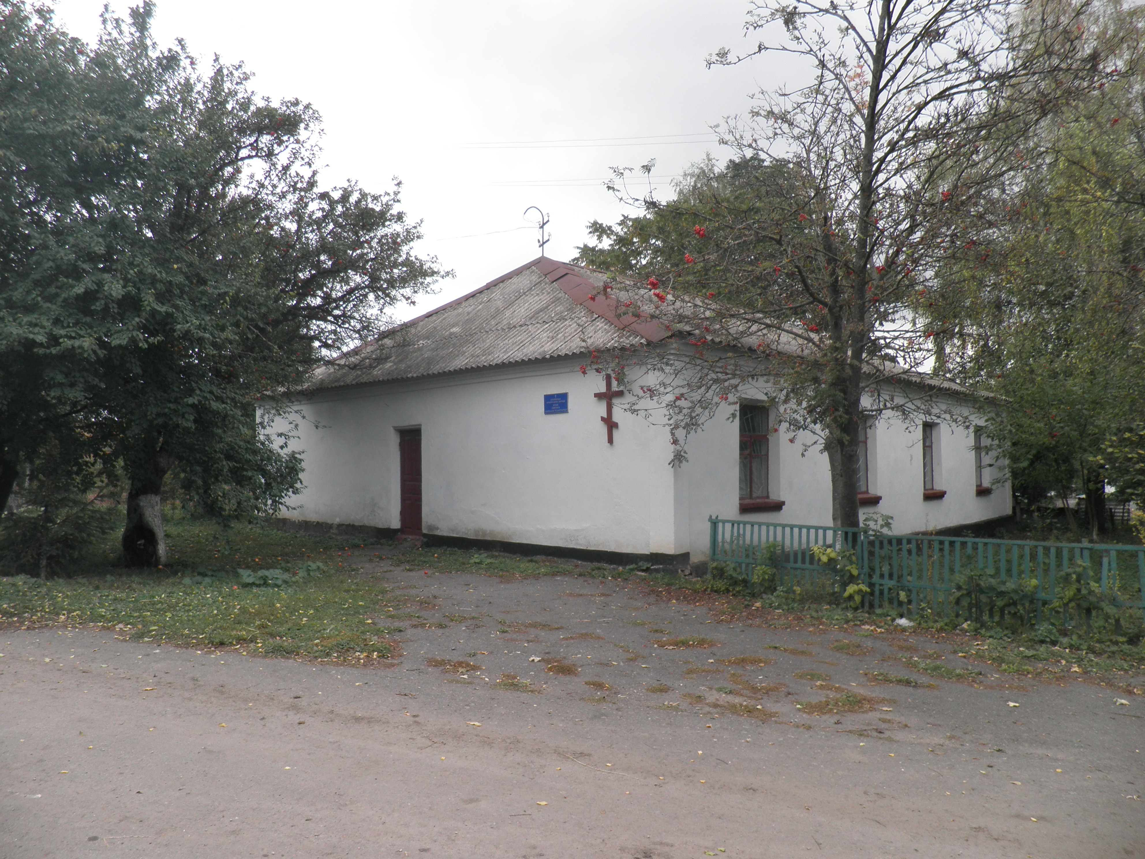 Khmelnitskiy regional psychiatric hospital №1: library and church of St. Nikolaos the Wonderworker